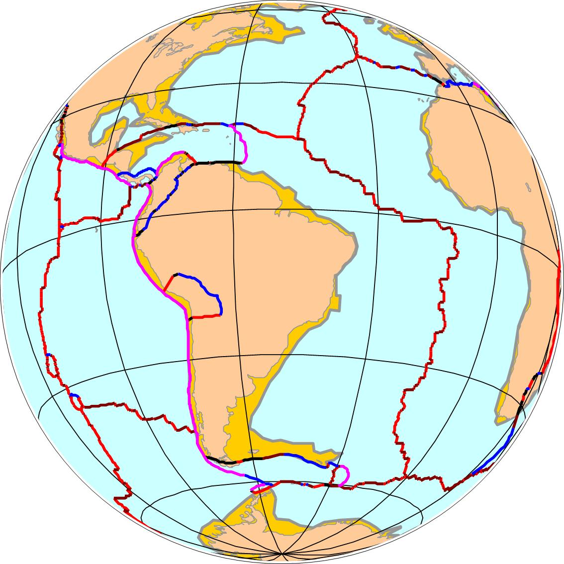 South American tectonic plate. Orthogonal projection (as seen from deep space).